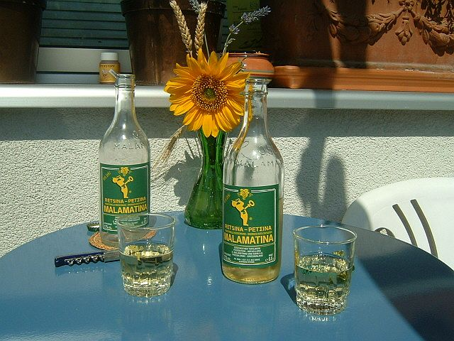 Malamatina, a greek Restsina wine with glasses